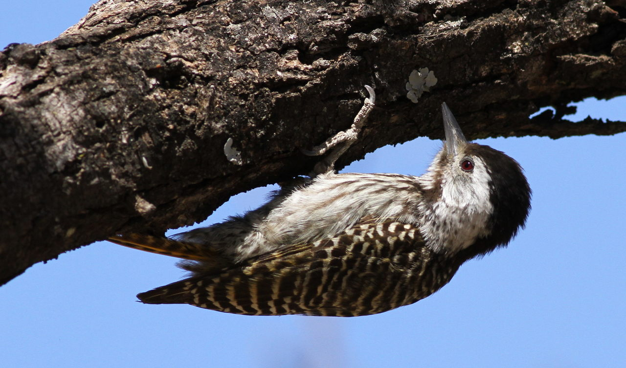 Cardinal Woodpecker - FEMALE, Dendropicos fuscescens at Pilanesberg National Park, Northwest Province, South Africa